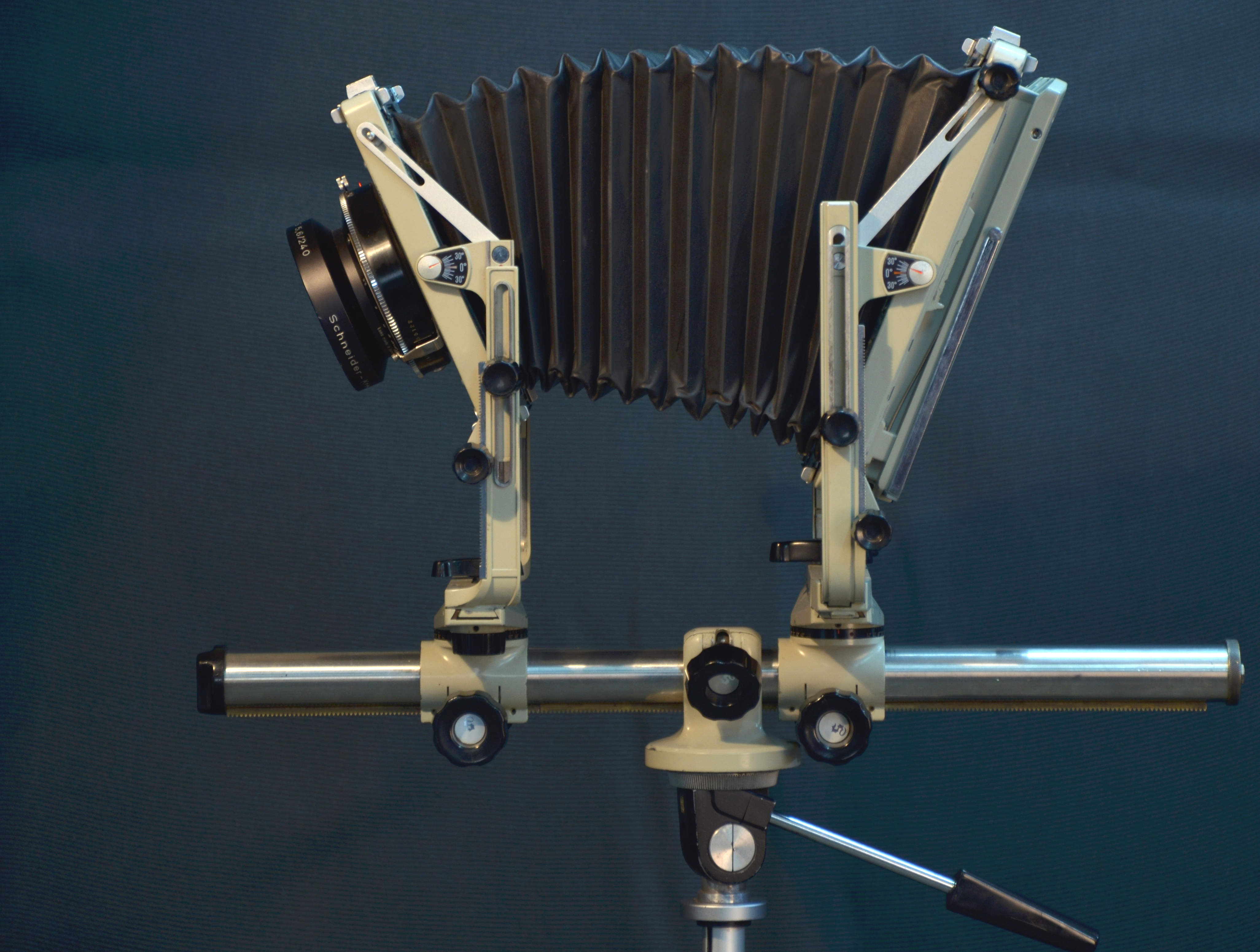 Schame floug in view camera in TOYO View.